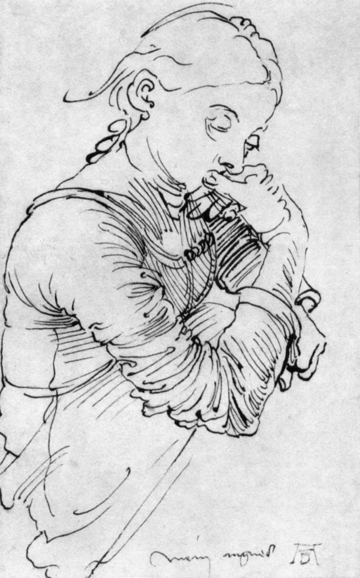 "Mein Agnes", Federzeichnung von Albrecht Dürer. c. 1494 Pen drawing in bistre on white paper, 156 x 98 mm Graphische Sammlung Albertina, Vienna When Dürer finally returned to Nuremberg in May 1494 he was 23, fully-trained and could open his own workshop. Albrecht the Elder had felt it was time for his son to marry and had chosen a wife during his long absence. On 7 July, just a few weeks after his return, Dürer was married to Agnes Frey, the daughter of the skilled and prosperous coppersmith Hans Frey and his wife Anna Rummel. It was probably just before their wedding that Dürer sketched his fiancée, then in her late teens. Capturing her pensive mood with just a few strokes of the pen, Dürer lovingly inscribed it: `My Agnes'. Agnes, who still appears girlish, even childlike, here, is sitting at a table and supporting her head pensively on her right hand, her hair tied back. The intimacy of this everyday sketch is unusual, showing the depicted woman at a moment when she evidently thought herself to be unobserved.